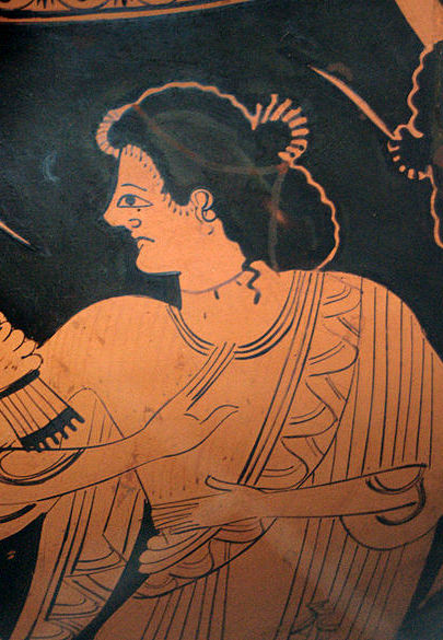 God council in Olympus: Hermes with his mother Maia. Detail of the side B of an Attic red-figure belly-amphora, ca. 500 BC.